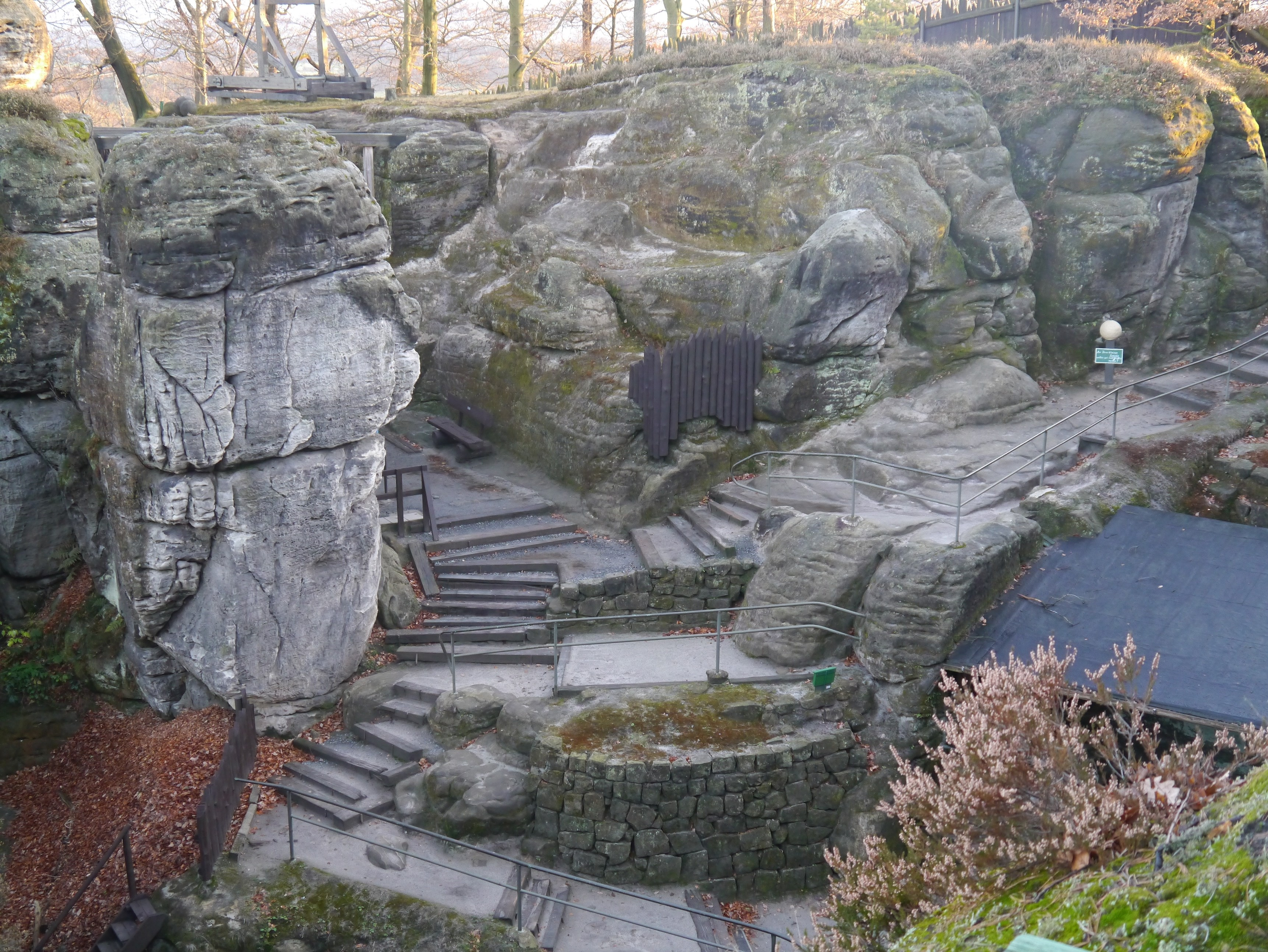 Neurathen Rock Fortress , Rathen